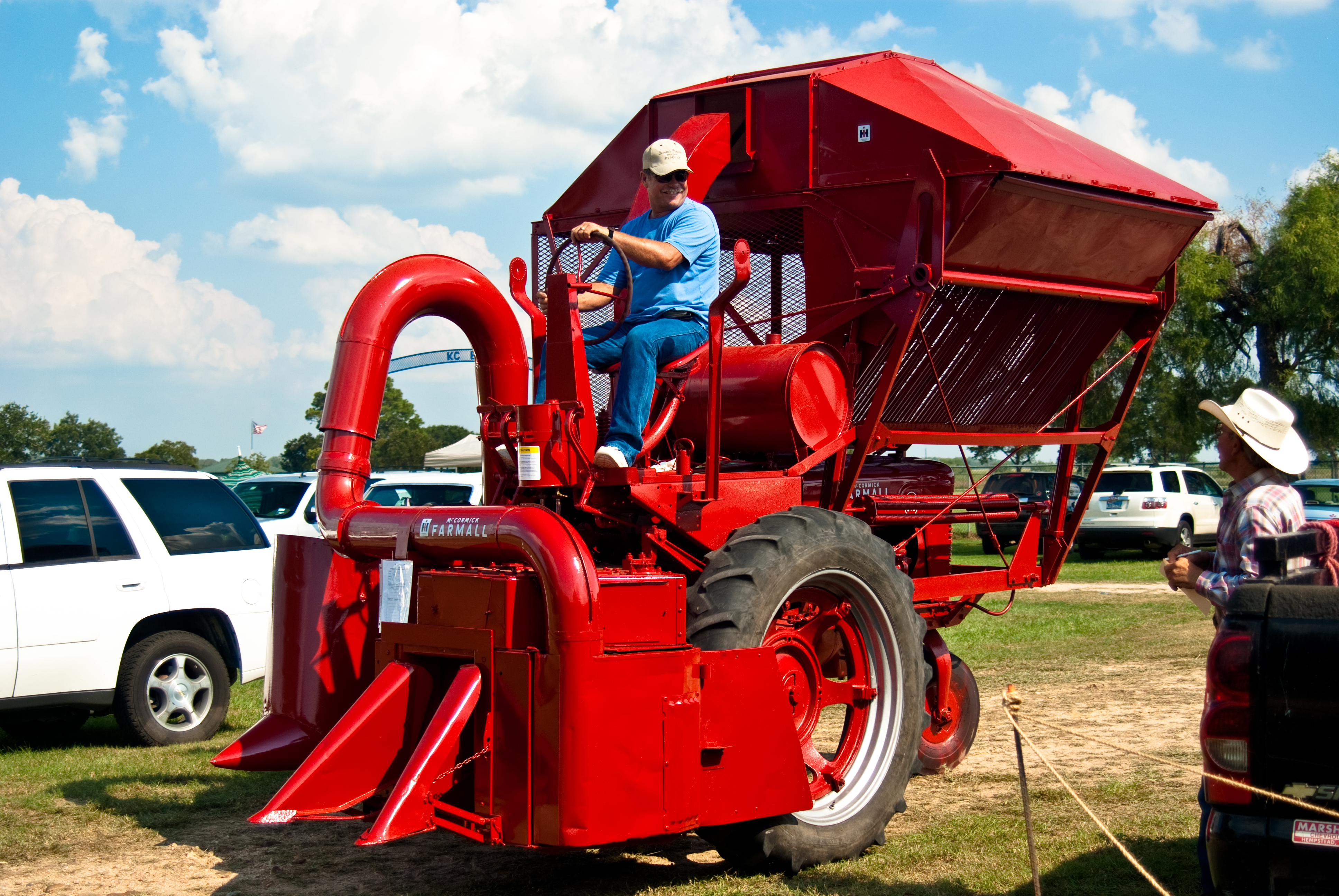 An IHC McCormick Farmall cotton harvester, Nada, Texas, USA